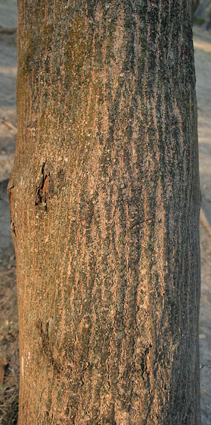 Subabool Leucaena leucocephala in Kolkata, West Bengal, India.